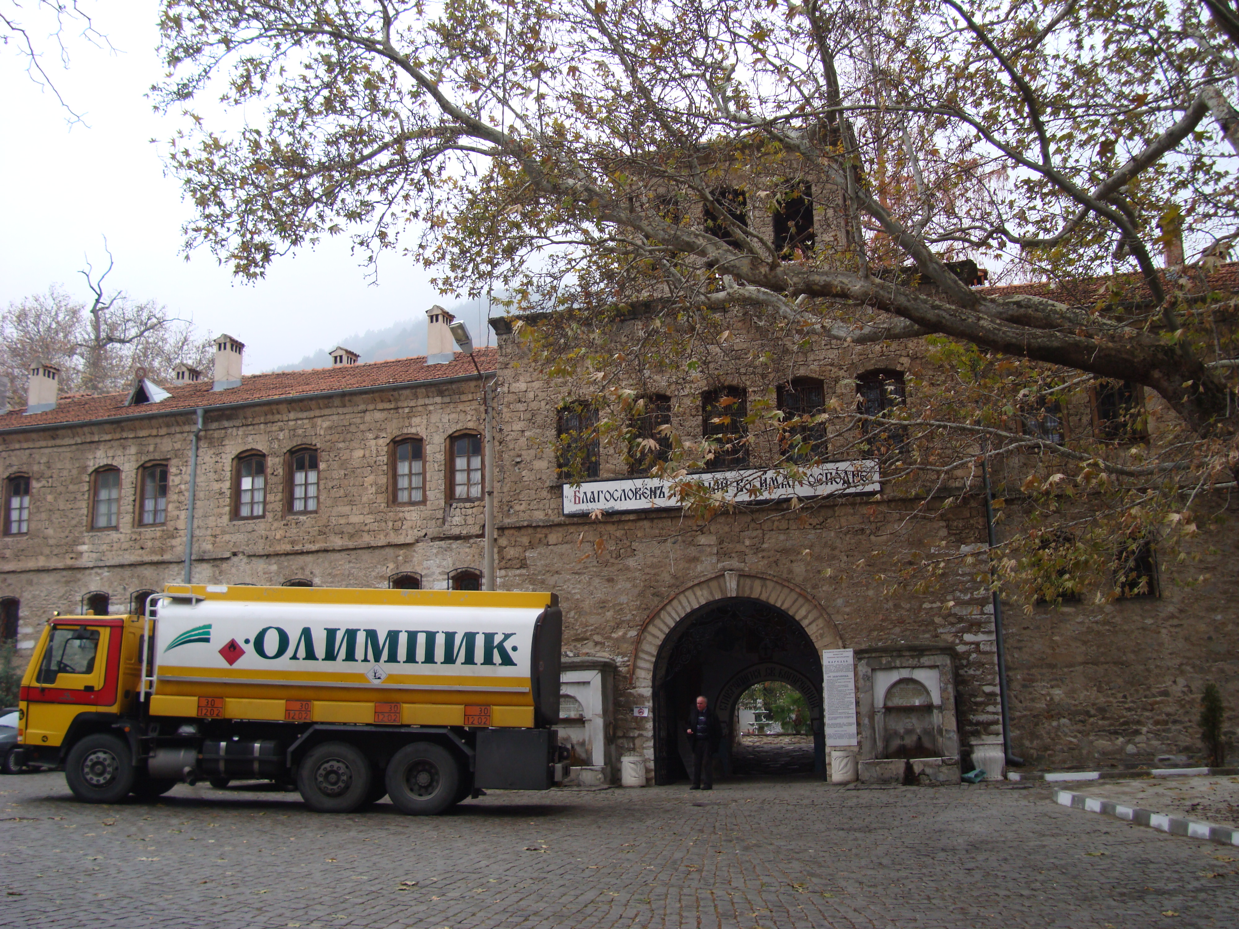 The front view of the Bachkovo Monastery